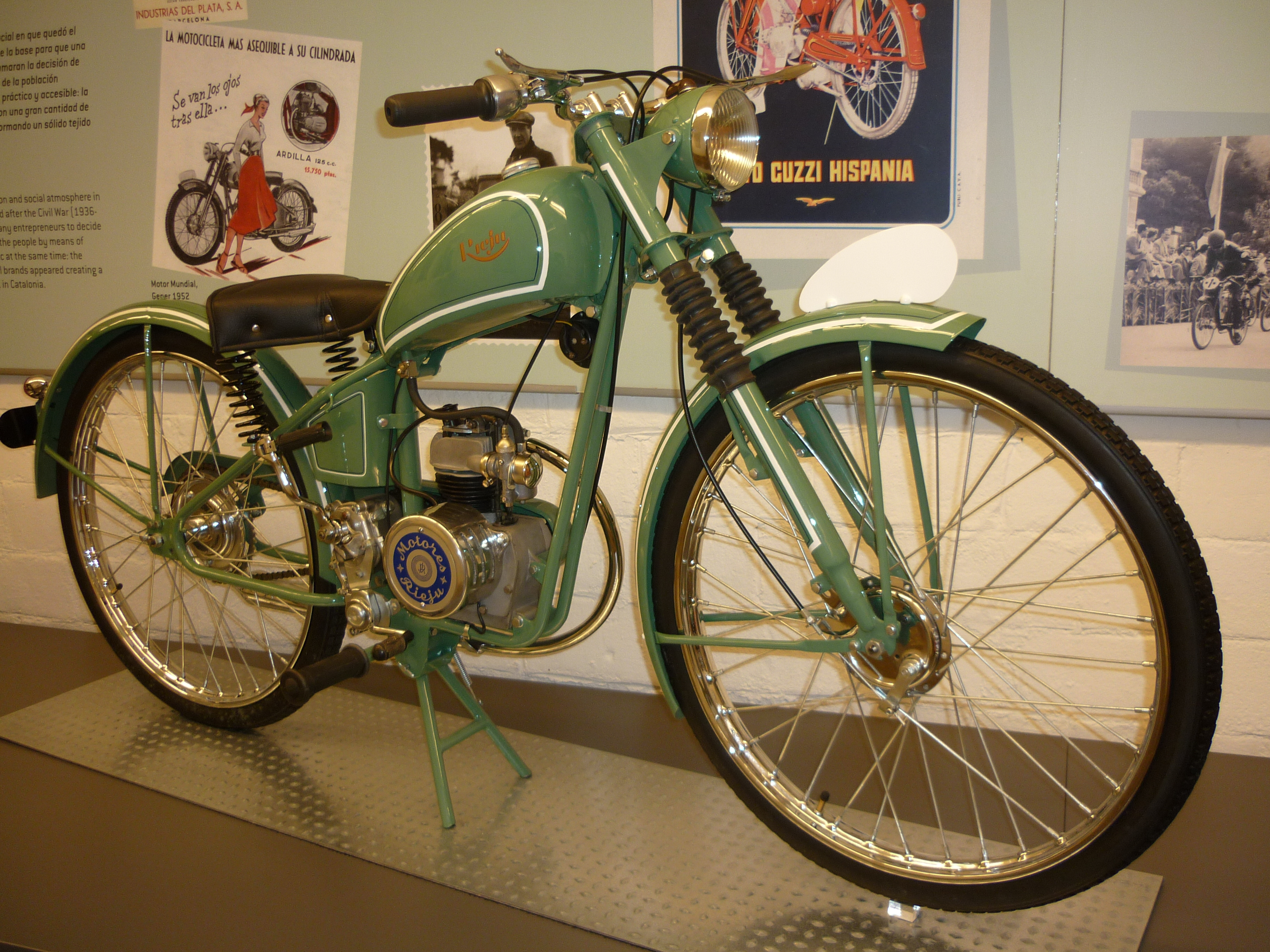 Rieju Velomotor Nº 3 50cc (1949)